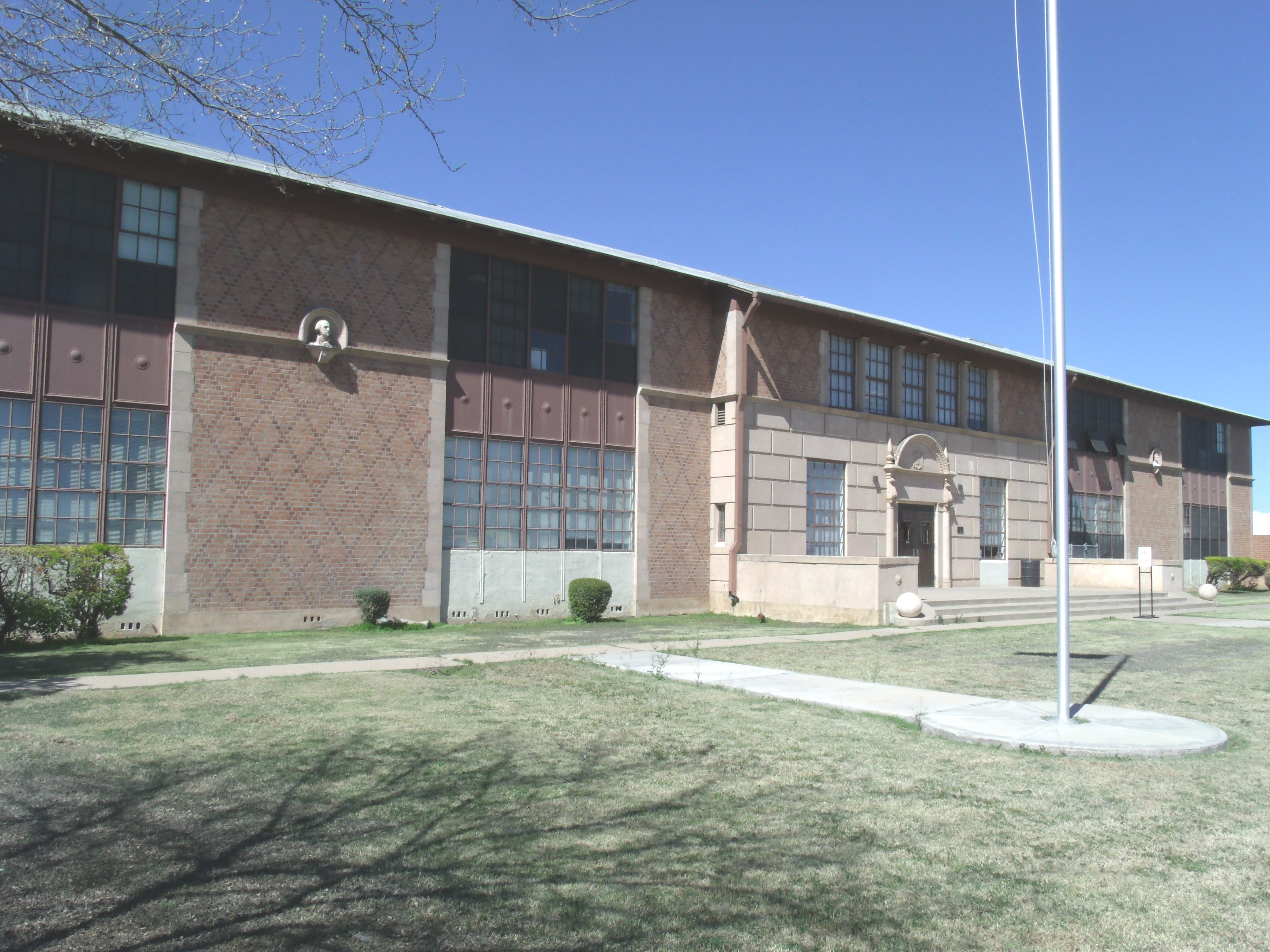 The John G. Whittier School was built in 1929 and is located at 2004 N. 16th Street in Phoenix, Az. On August 12, 1993, it was listed in the National Register of Historic Places, ref.: #93000741.